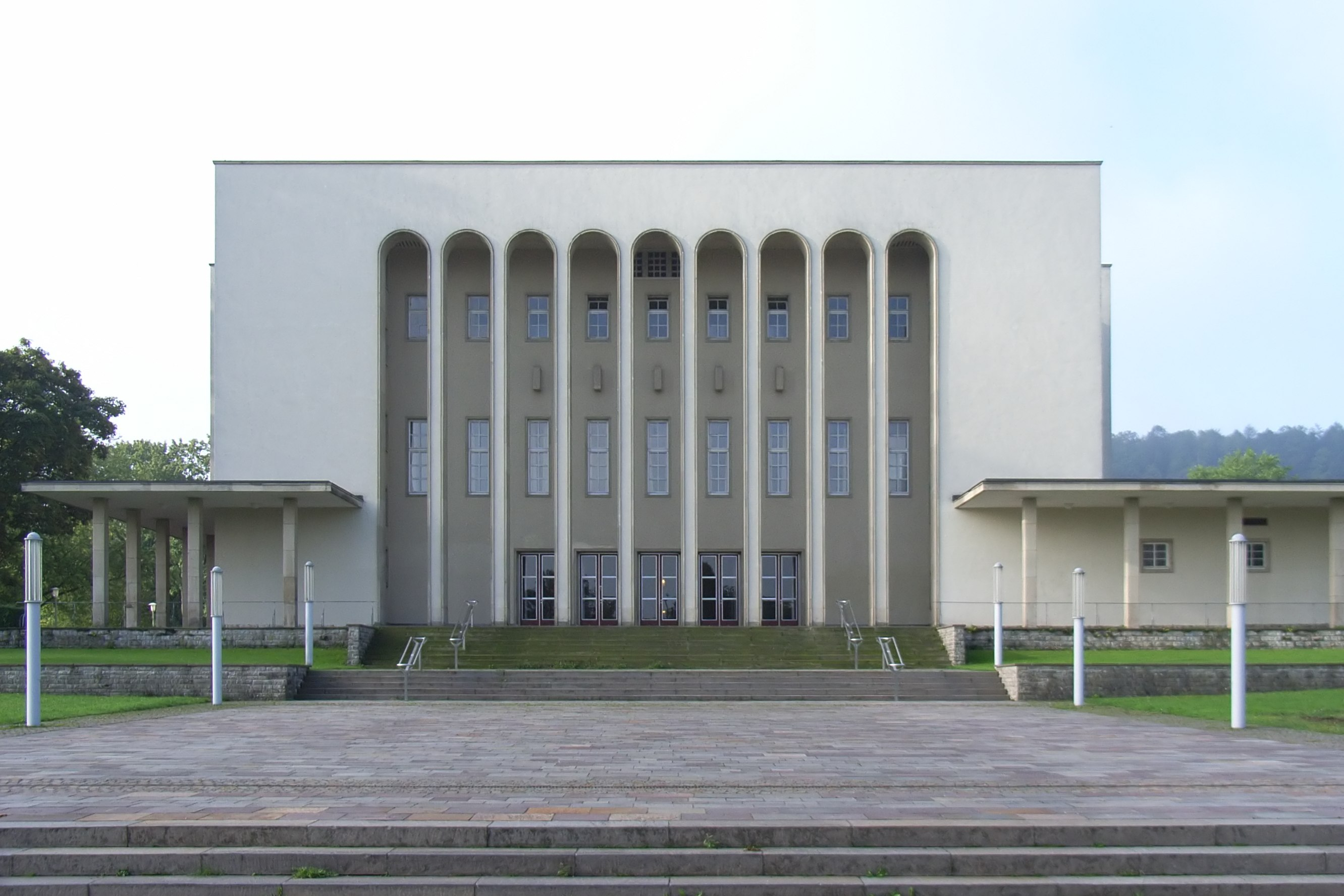 Bielefeld, Germany: Rudolf-Oetker-Halle.